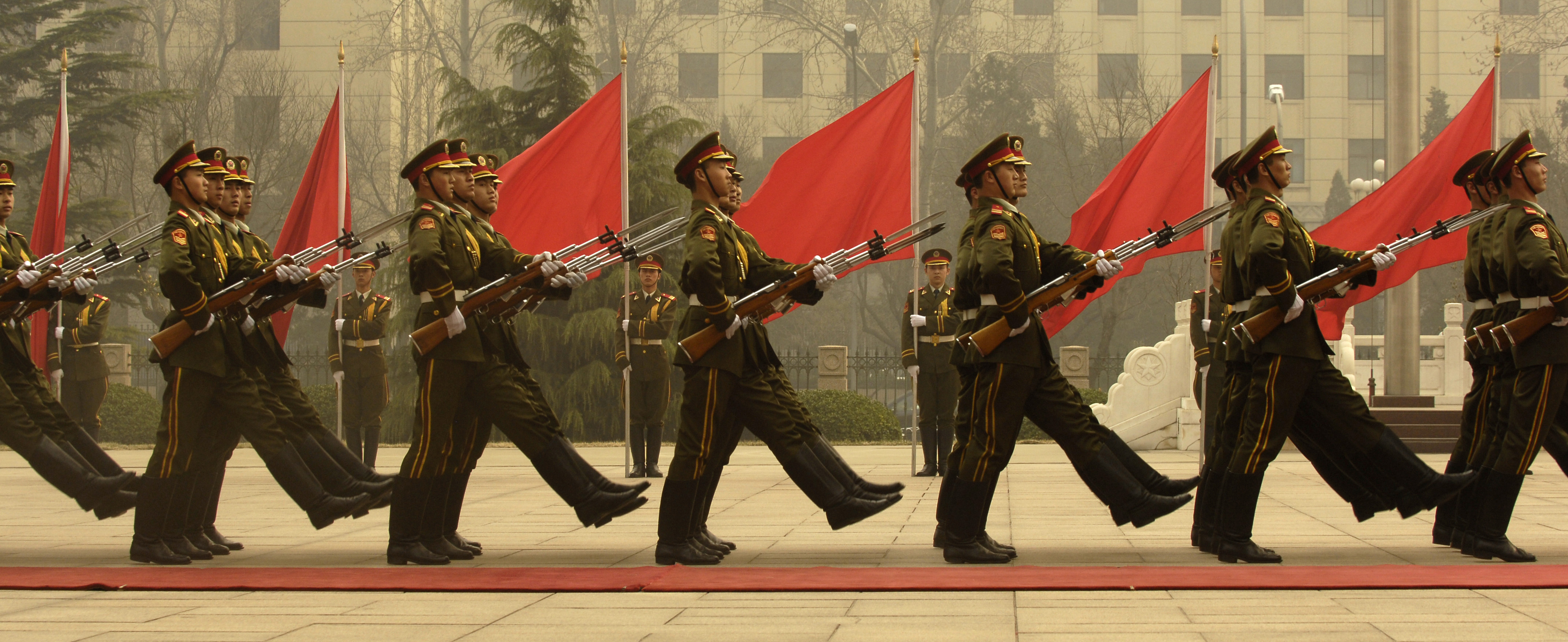 Members of a Chinese military honor guard march during a welcome ceremony for Chairman of the Joint Chiefs of Staff Marine Gen. Peter Pace at the Ministry of Defense in Beijing, China.